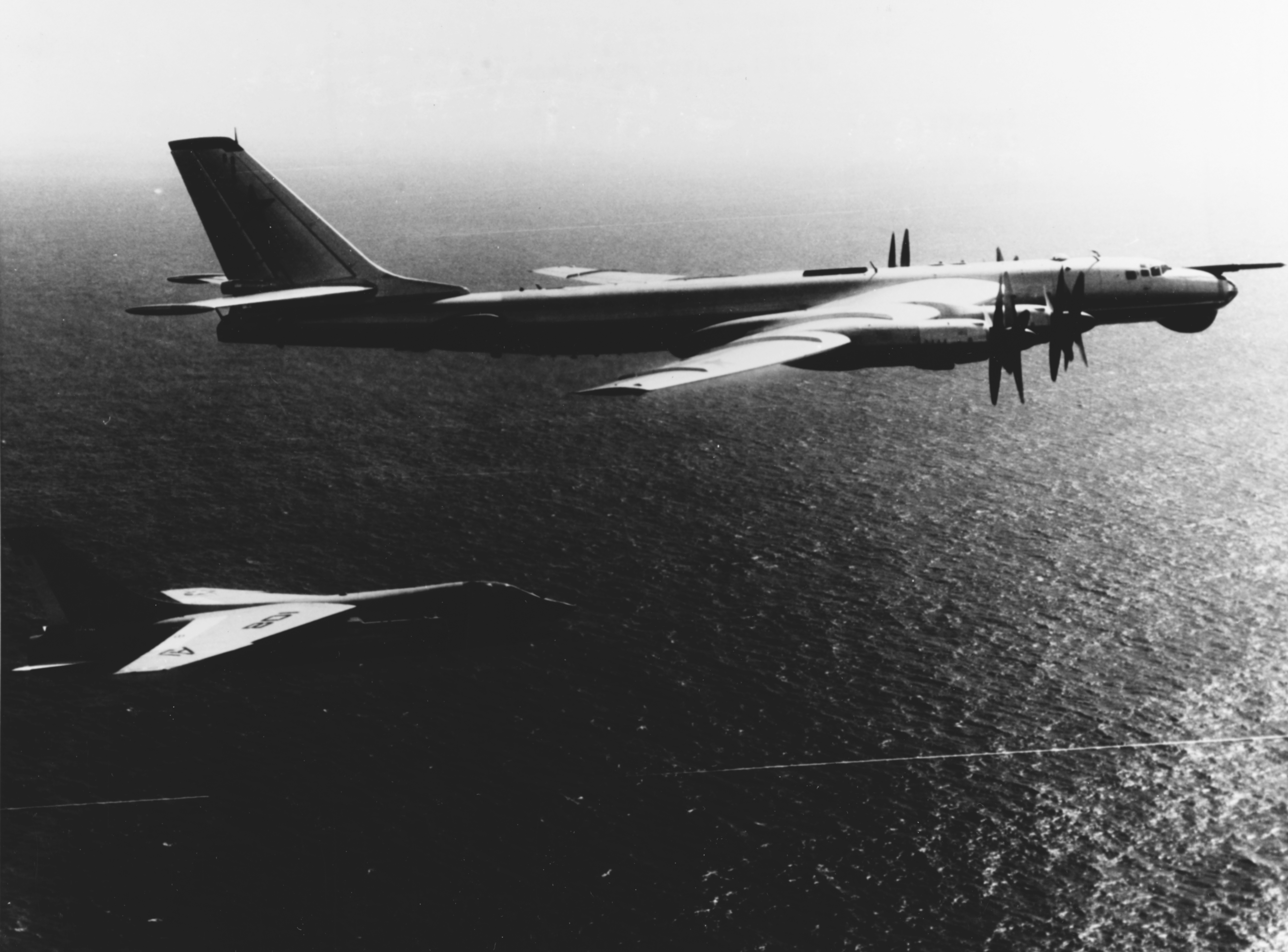 A Soviet Tupolev Tu-95 (NATO reporting code: "Bear") is escorted by a U.S. Navy Vought F-8D Crusader of Fighter Squadron 13 (VF-13) "Night Cappers" over the Mediterranean Sea. VF-13 was assigned to Attack Carrier Air Wing 8 (CVW-8) aboard the aircraft carrier USS Shangri-La (CVA-38) for a deployment to the Mediterranean Sea from 29 September 1966 to 20 May 1967.